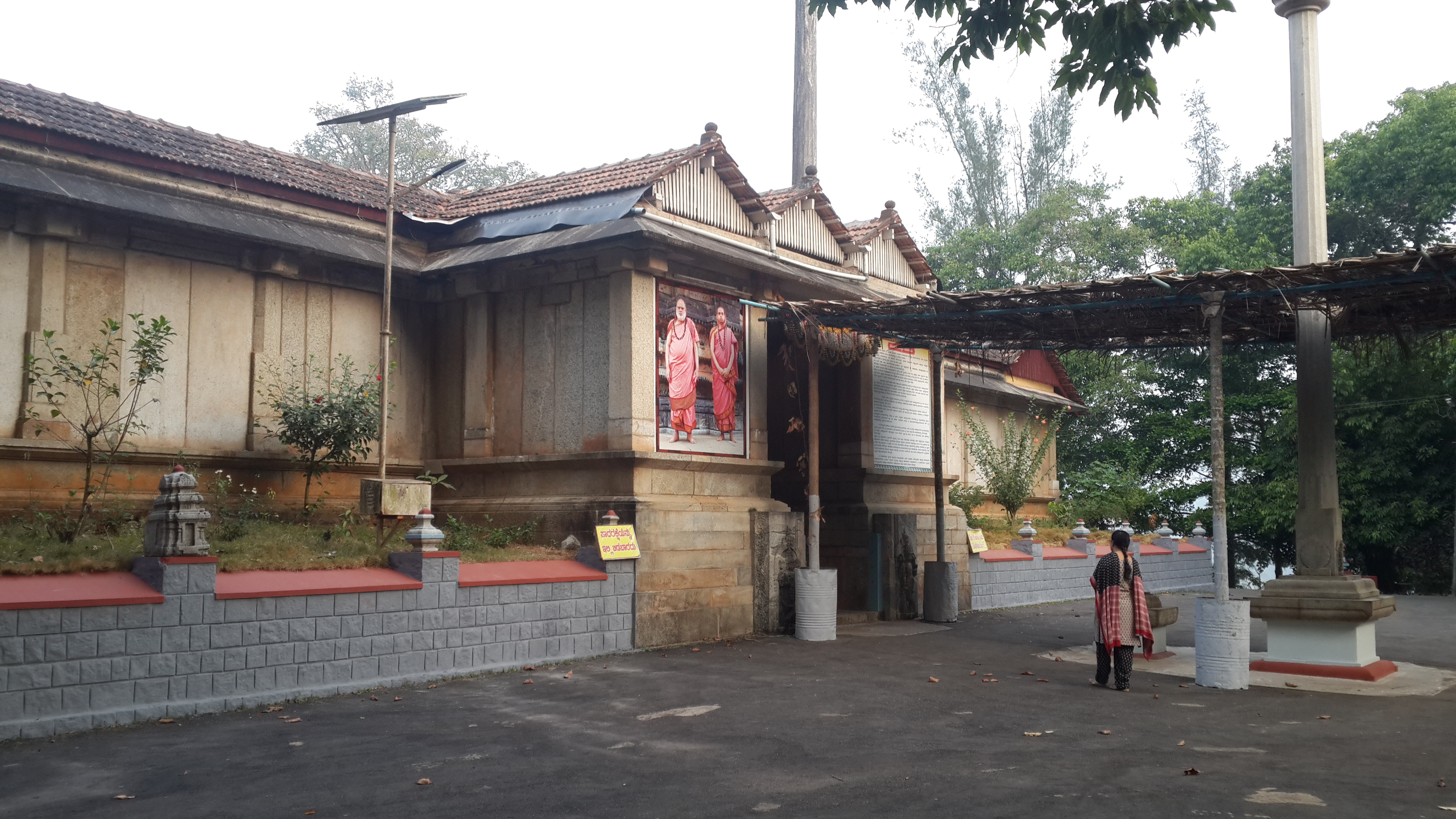 Photo of Sri Malahanikareshvara Temple, Sringeri, India (exterior view), 2016.